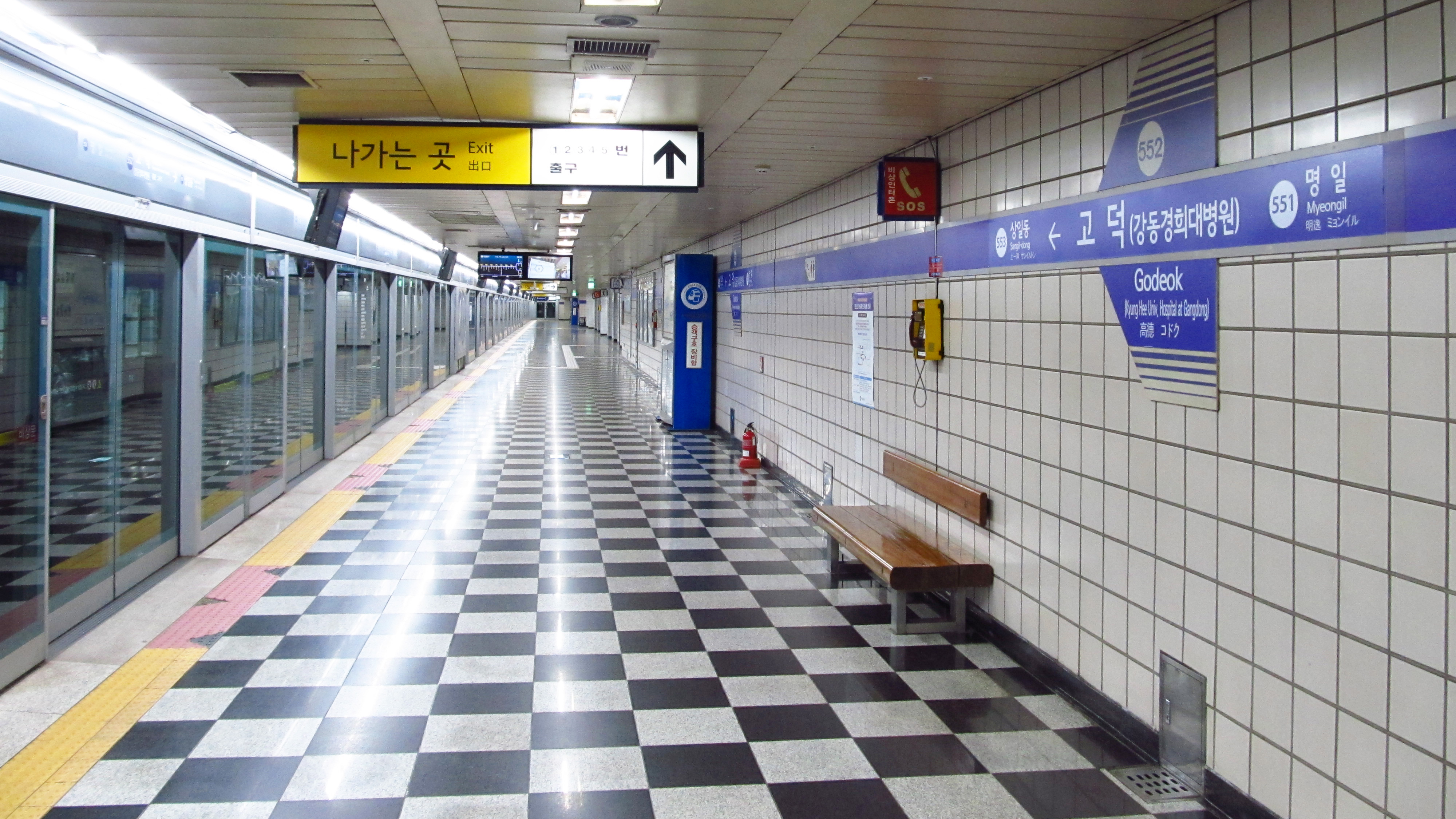 The platform at Godeok Station on Seoul Subway Line 5 in Gangdong-gu, Seoul, Republic of Korea(South Korea)